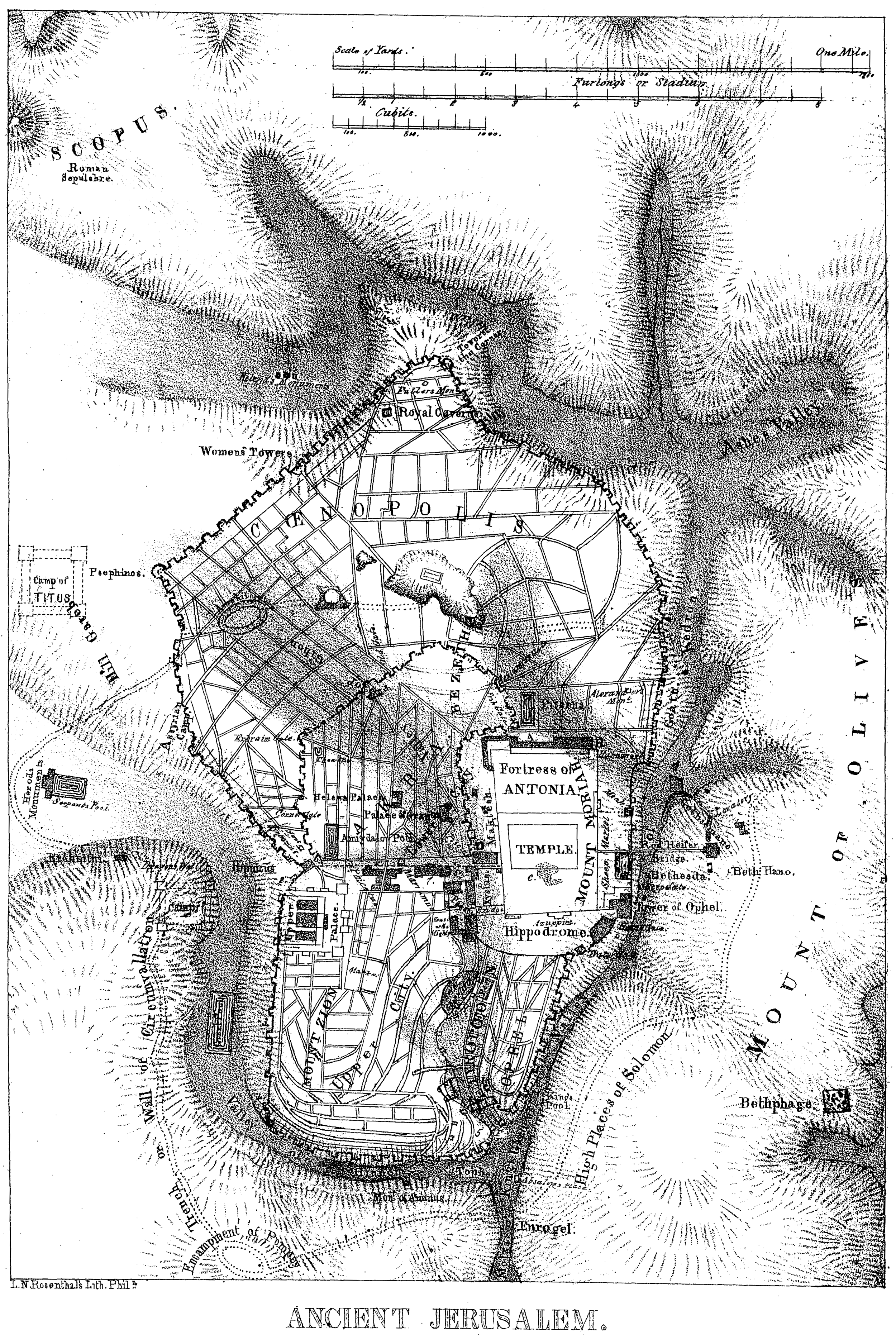 Map of Jerusalem, published in 1858 by J. T. Barclay in the book City of the Great King.